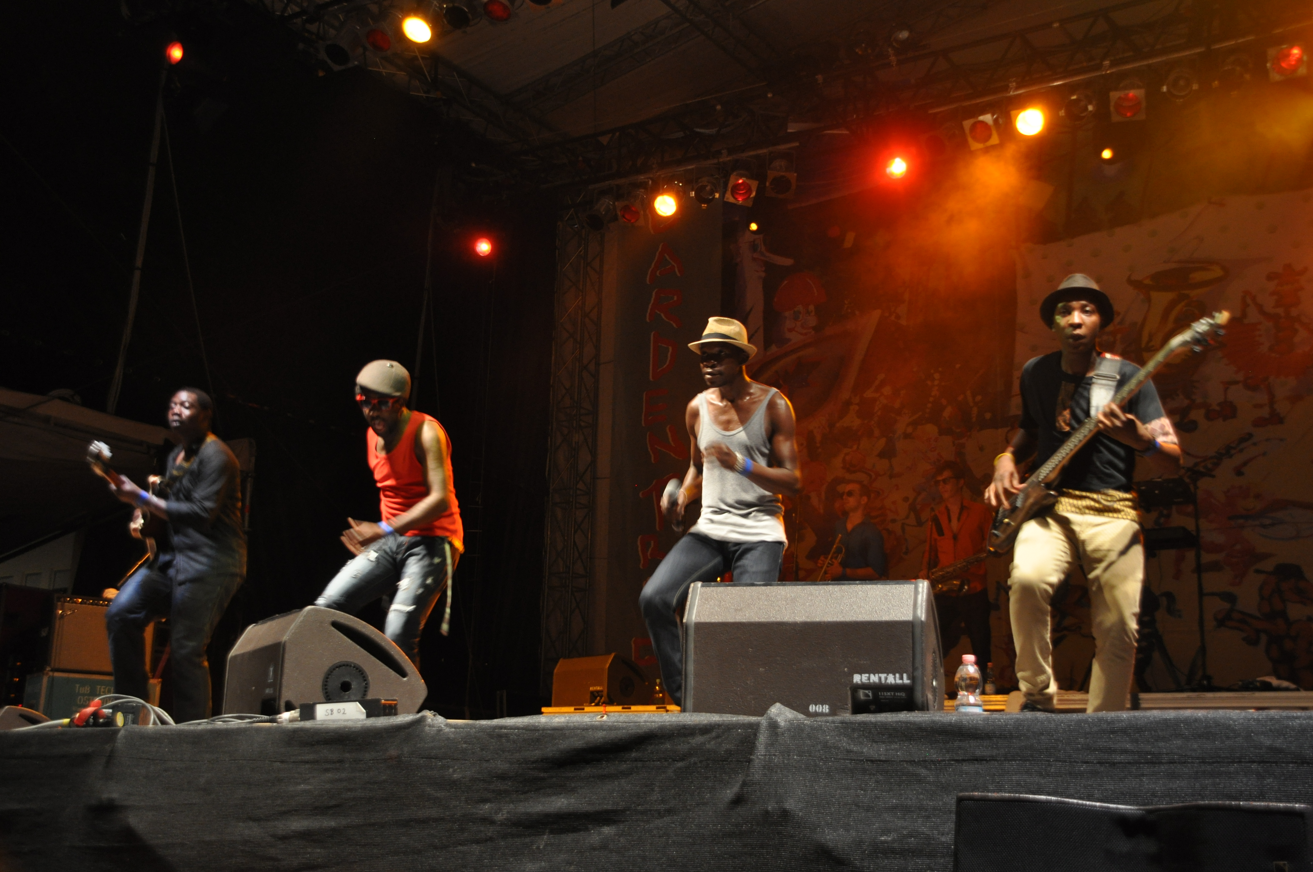 Mokoomba (Zimbabwe), appearence at the 38th music festival "Bardentreffen" 2013 in Nuremberg, Germany, Hauptmarkt stage